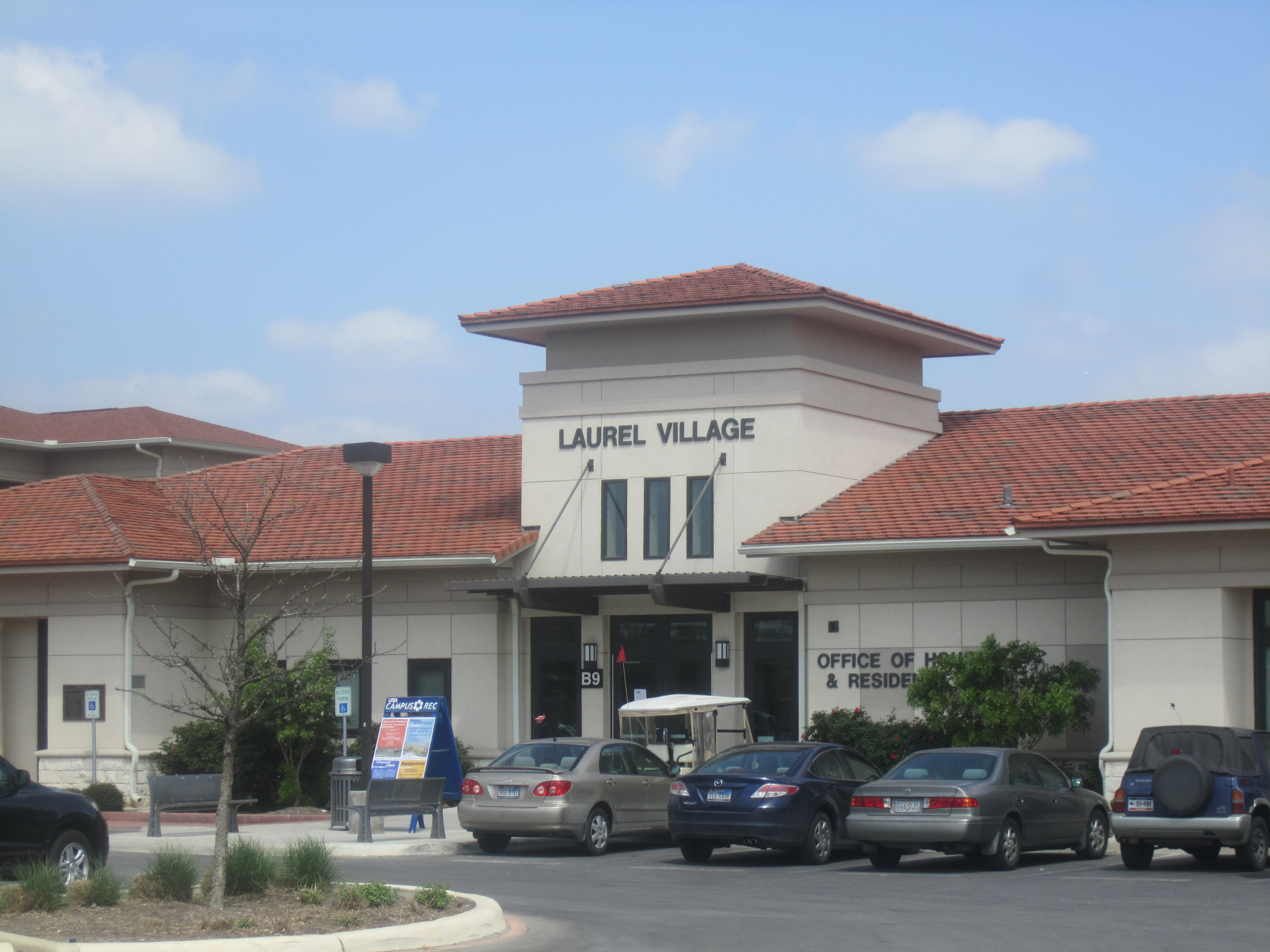 I took photo with Canon camera in San Antonio at UTSA campus.